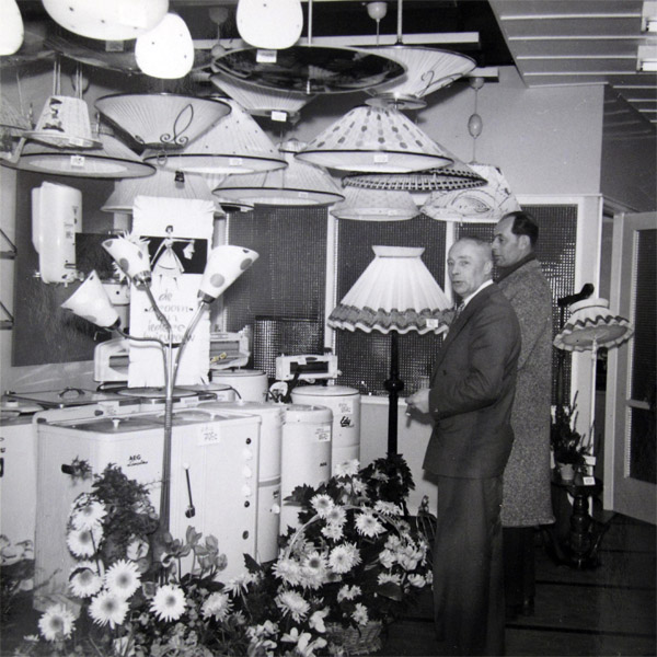 Foto van de winkel en eigenaar Jan de Rapper tijdens de opening van de zaak Jan de Rapper aan de Oosterdijk 76 te Sneek in 1957